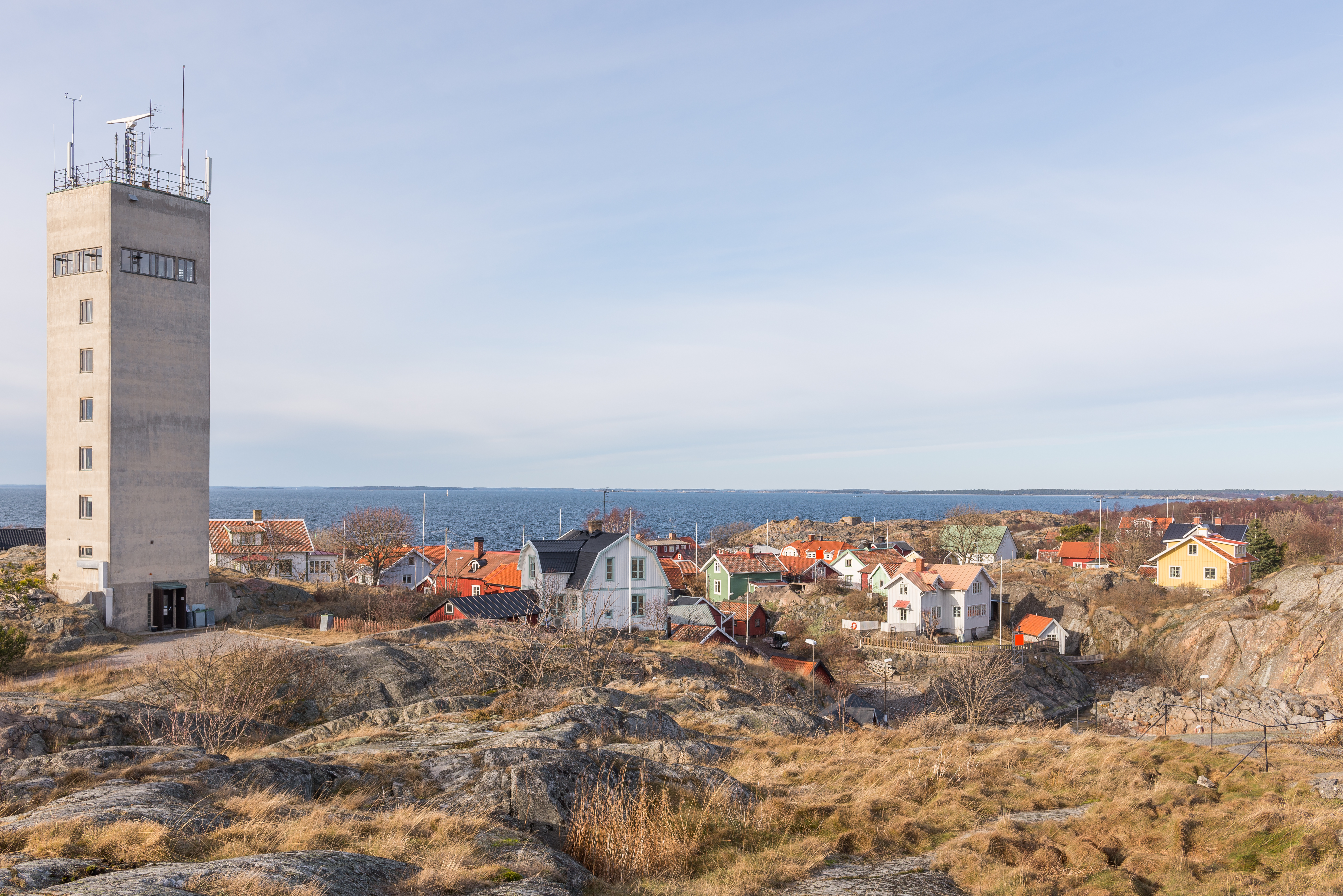 Former Pilot watch-tower and buildings in Storhamn, the only village at Öja Island, Stockholm Archipelago.